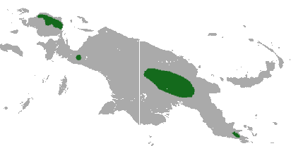 Stein's Cuscus (Phalanger vestitus) range